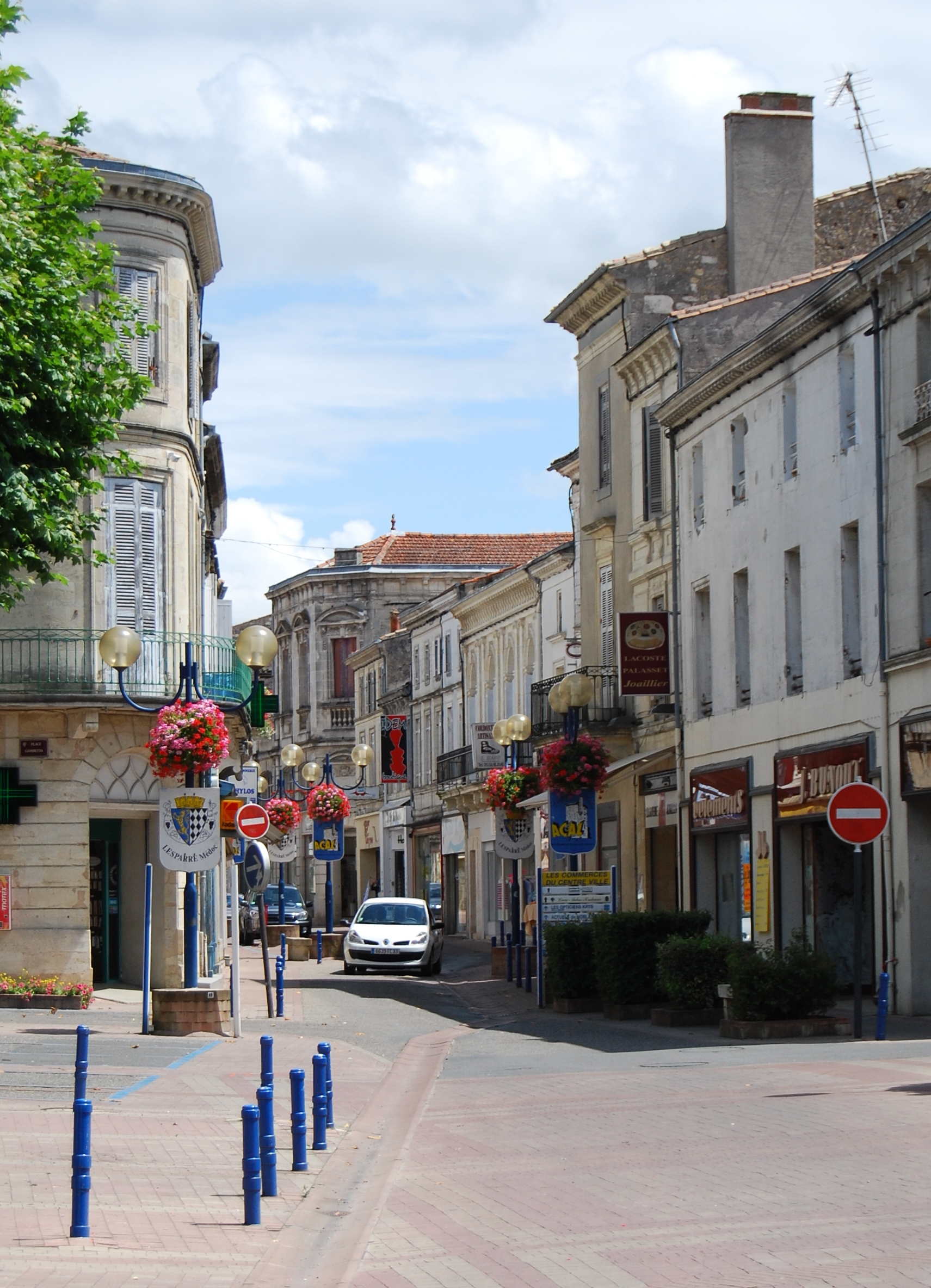 A street in the center of Lesparre-Médoc